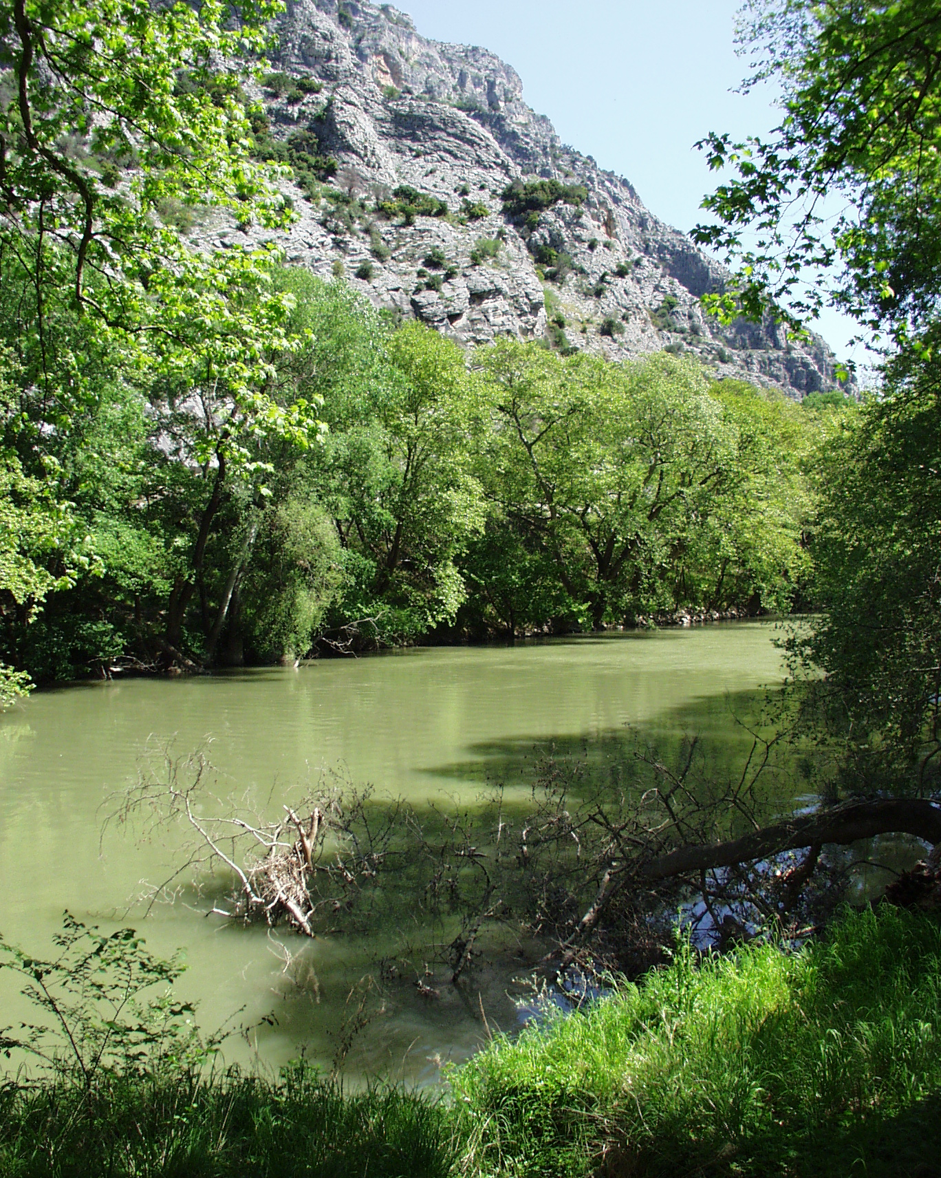 Pinios (Πηνειός) river in Tempe Valley, Thessaly, Greece